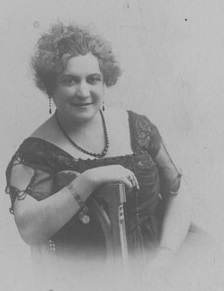 Herminia Mancini-actriz argentina